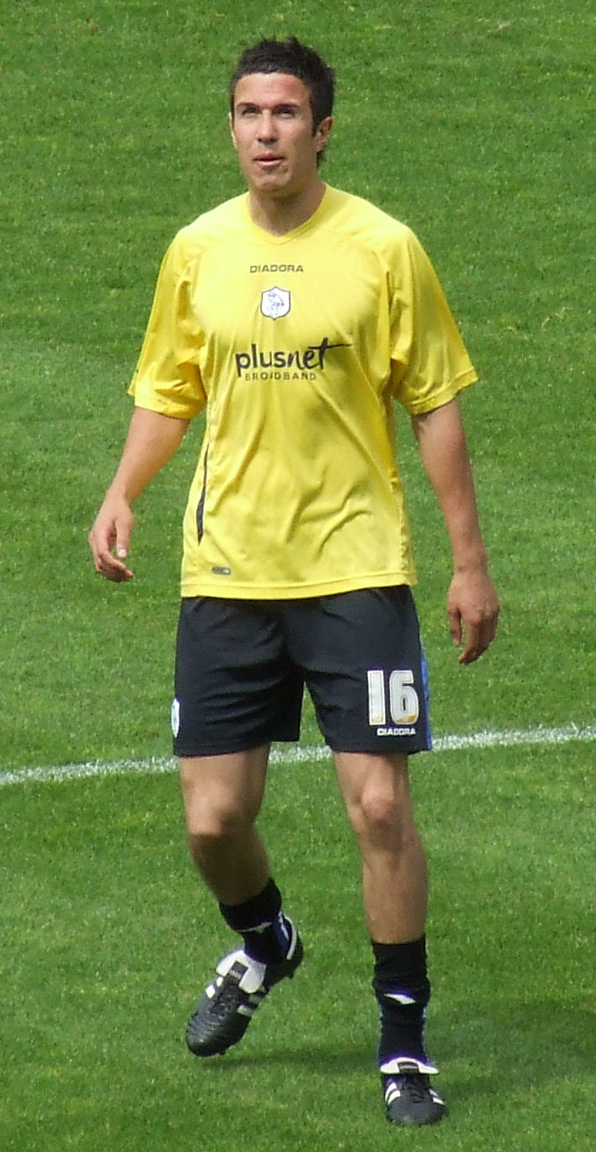 Richard Wood at Hillsborough Stadium, Sheffield,UK